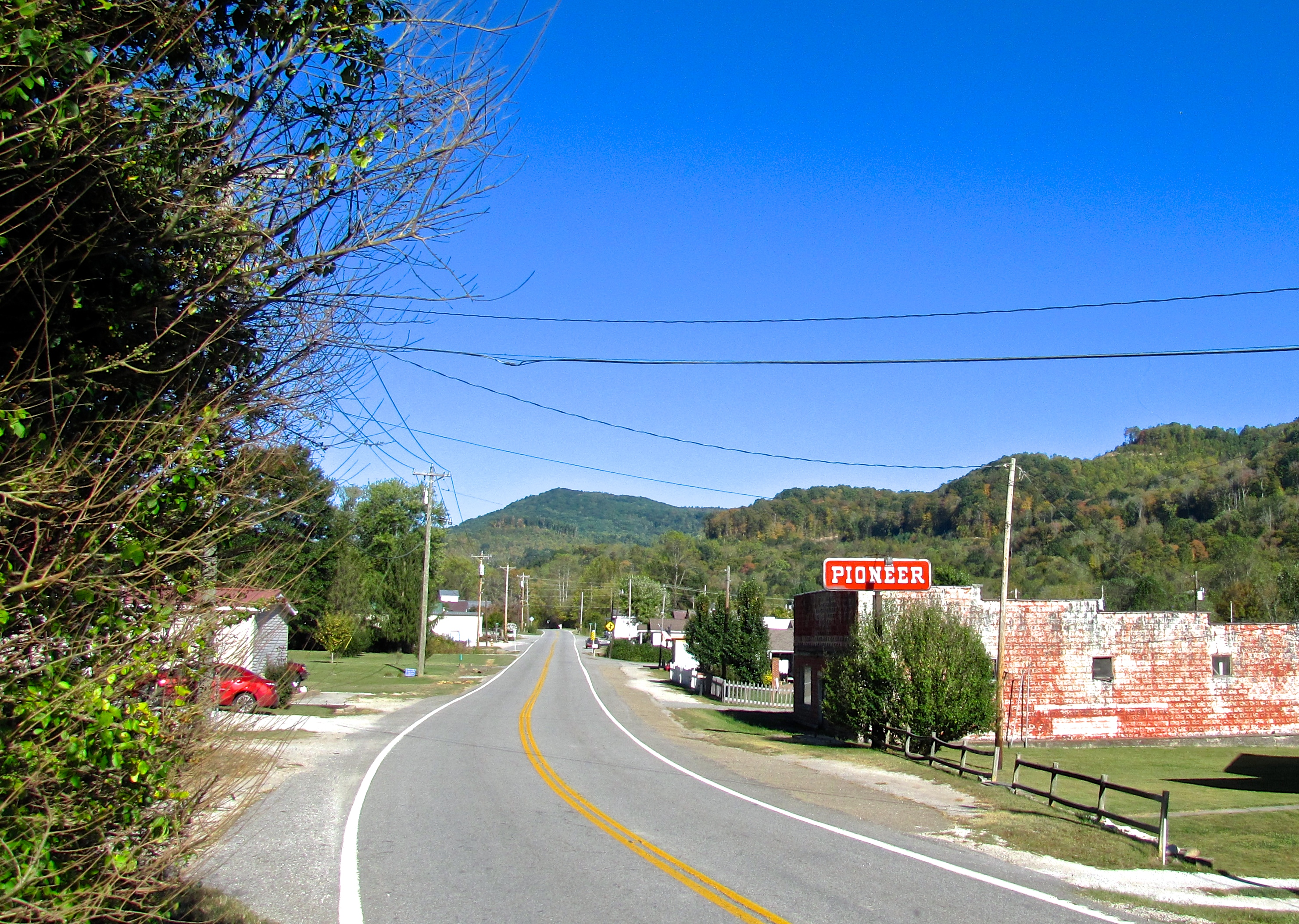 State Route 90 in Clairfield, Tennessee, United States.